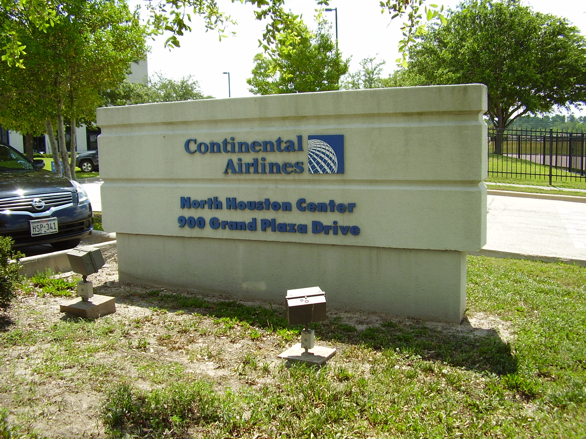 Continental Airlines North Houston Center